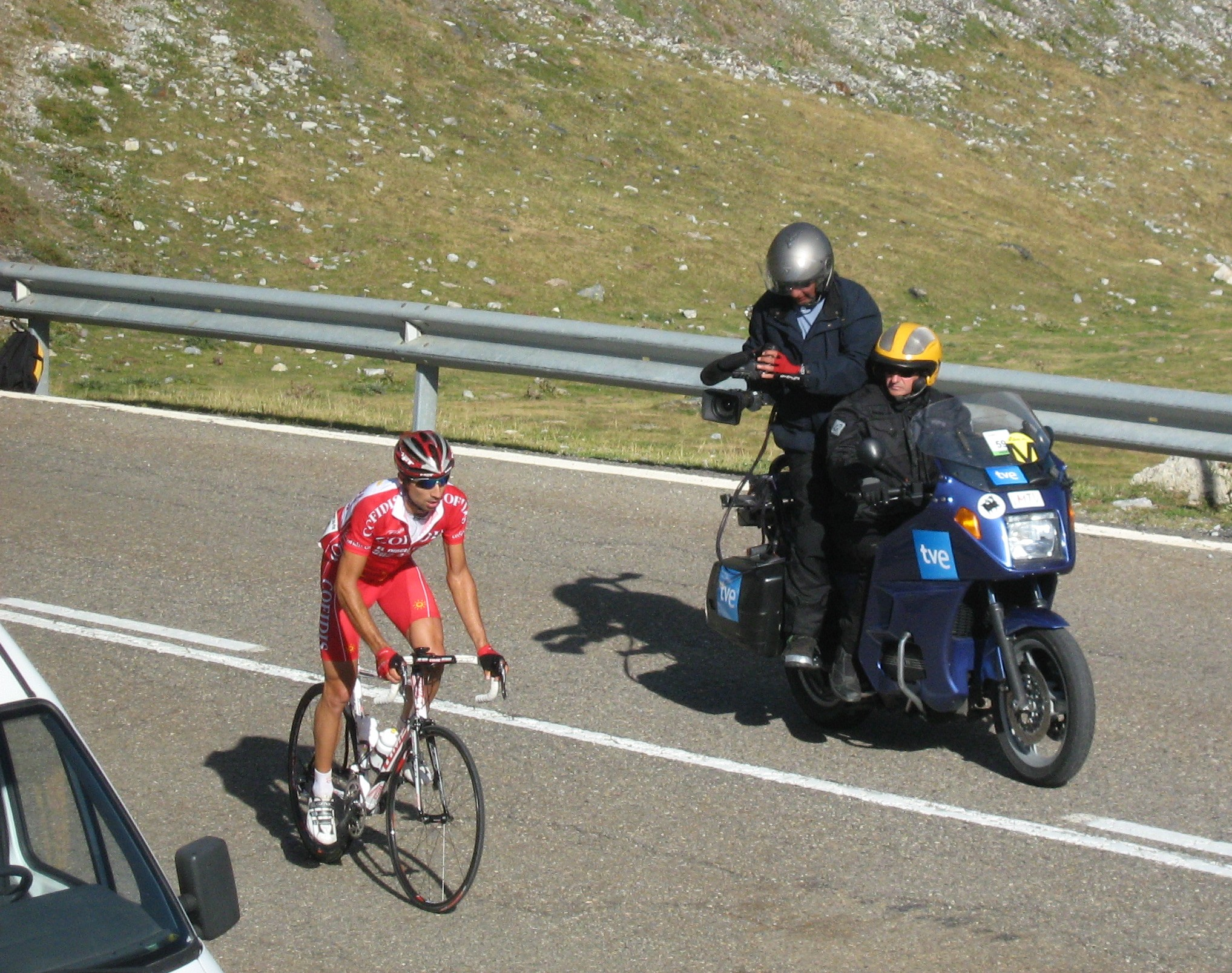 David Moncoutié (winner), 2008 Vuelta a España, 8th stage, Port de la Bonaigua, Spain.